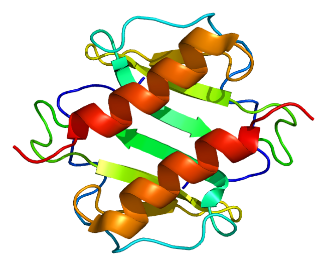 Structure of the CXCL1 protein. Based on PyMOL rendering of PDB 1mgs.